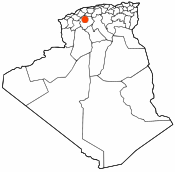 Blank map of the provinces of Algeria with a red city locator dot. Made by User:Escondites, blank version by User:Golbez.